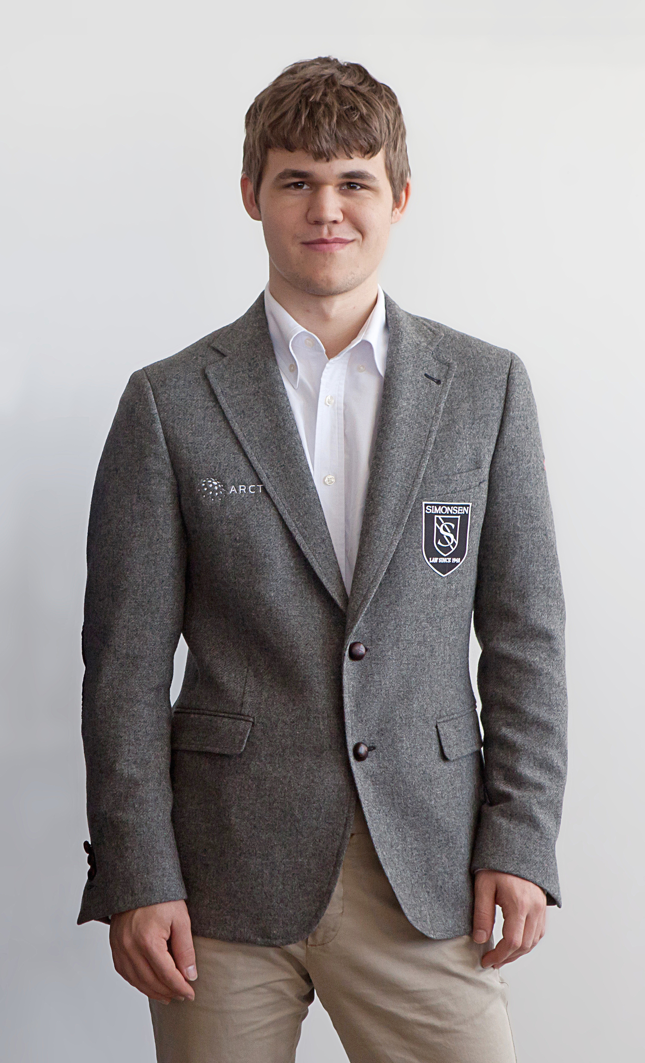 Magnus Carlsen in 2012.